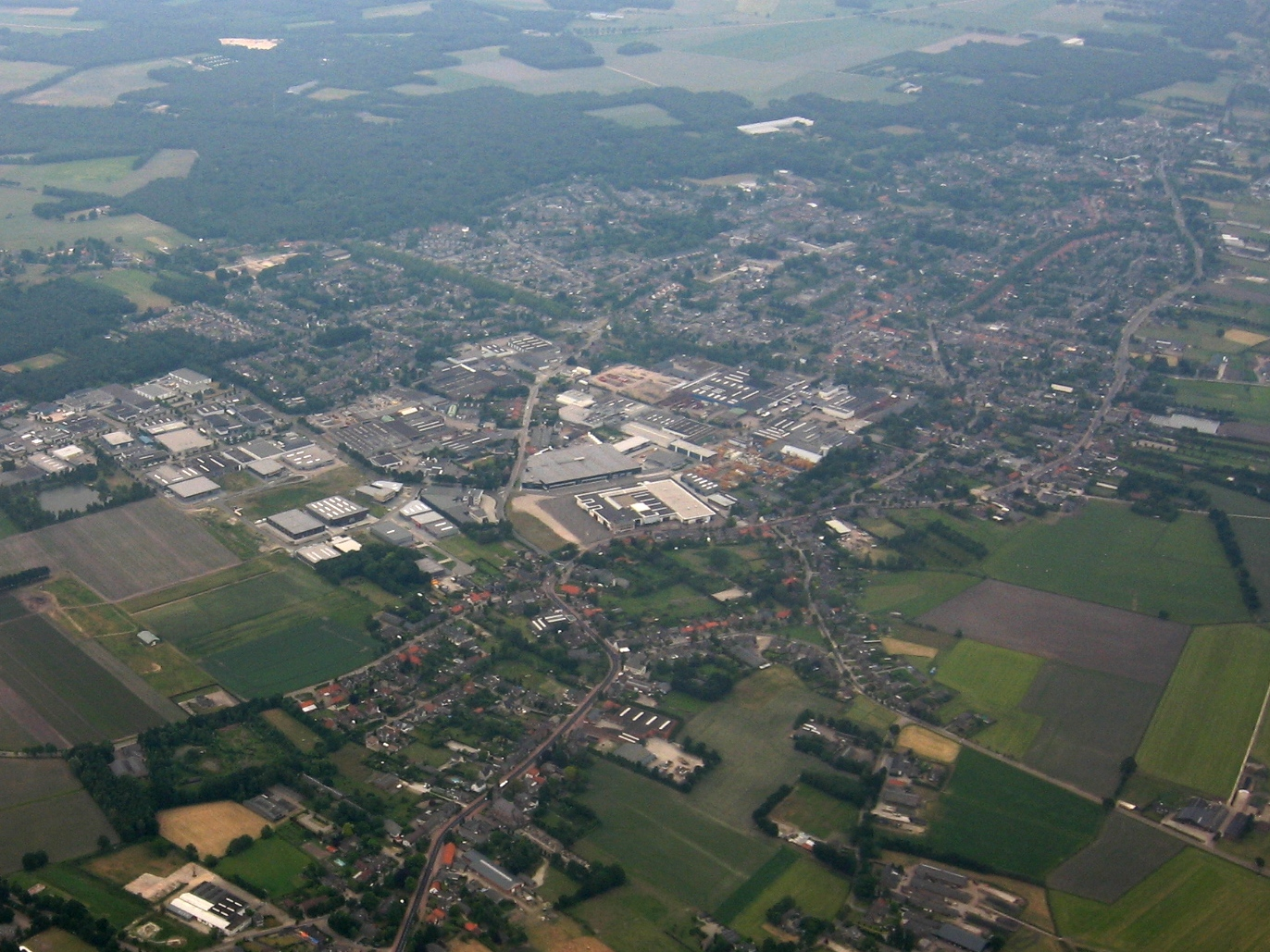 Bergeijk